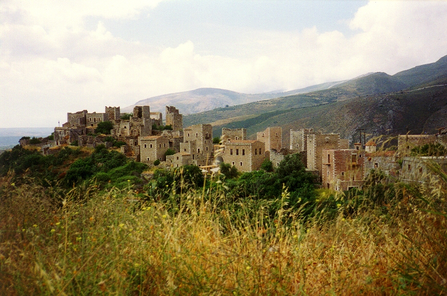 The village Vathia on the Mani Peninsula in Greece.